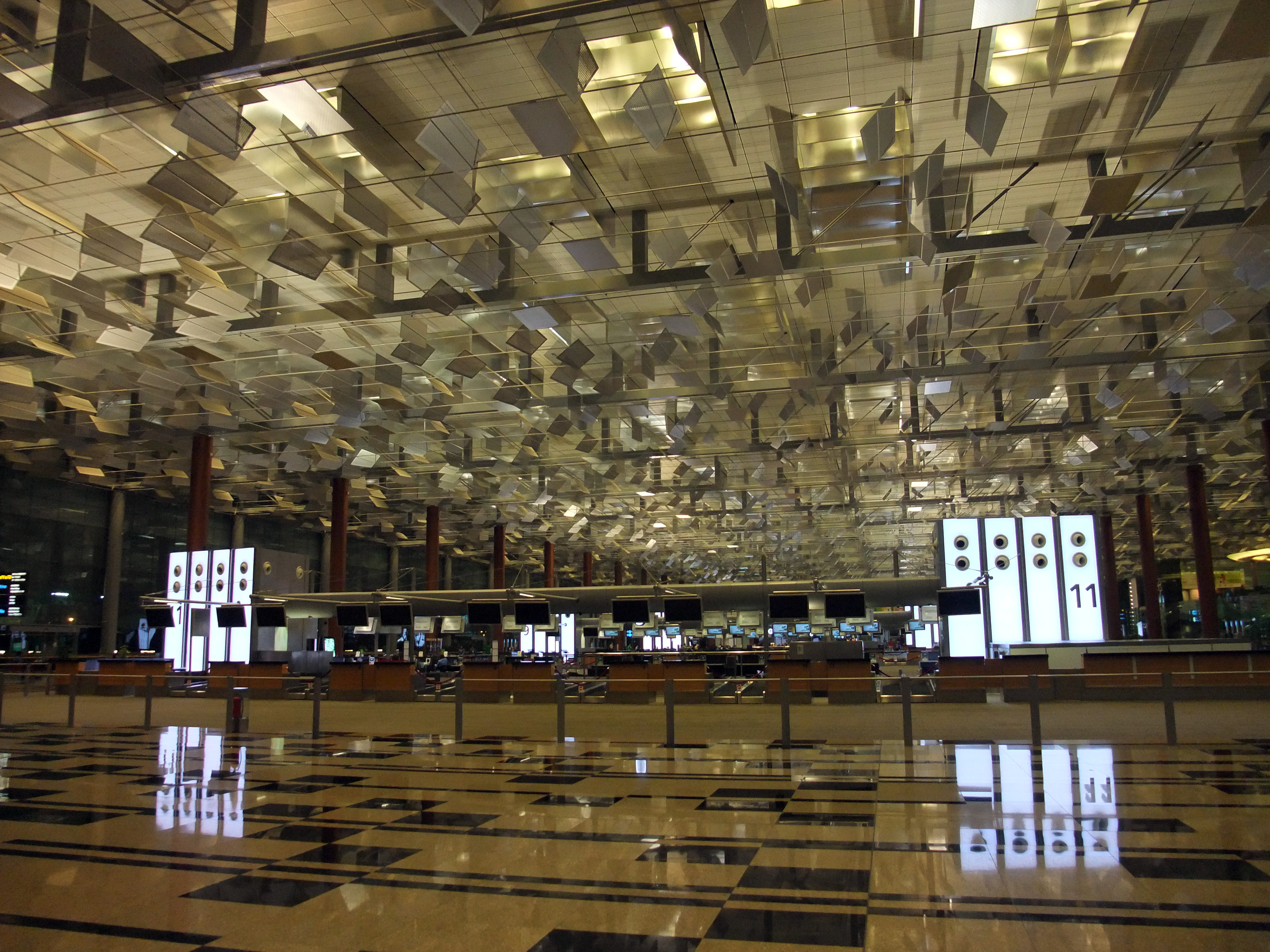 Entrance hall of terminal three, Changi Airport, Singapore